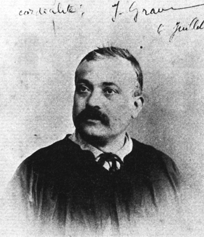 Jean Grave, French anarchist.